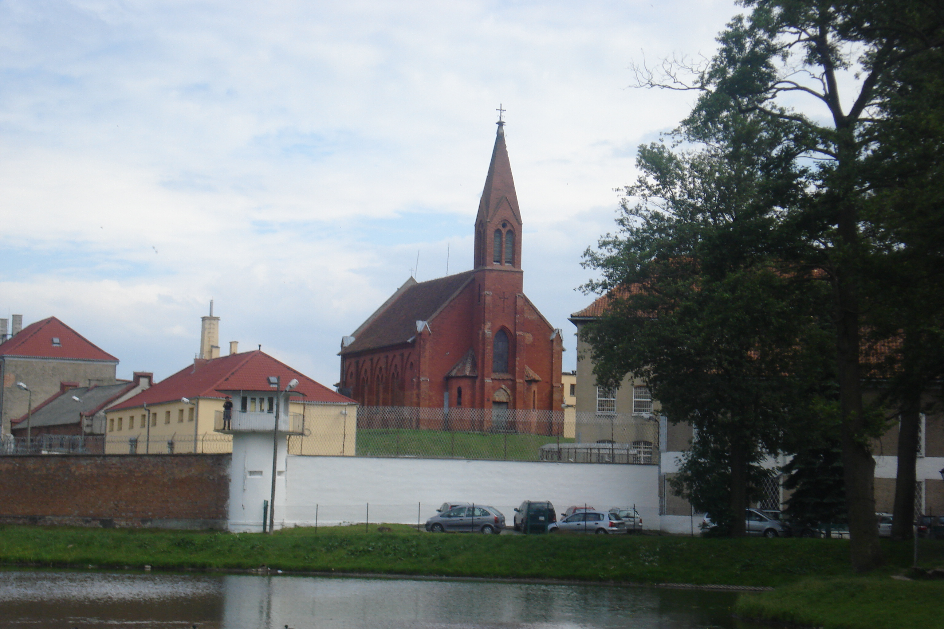 Saint Dismas prison church in Barczewo, Poland